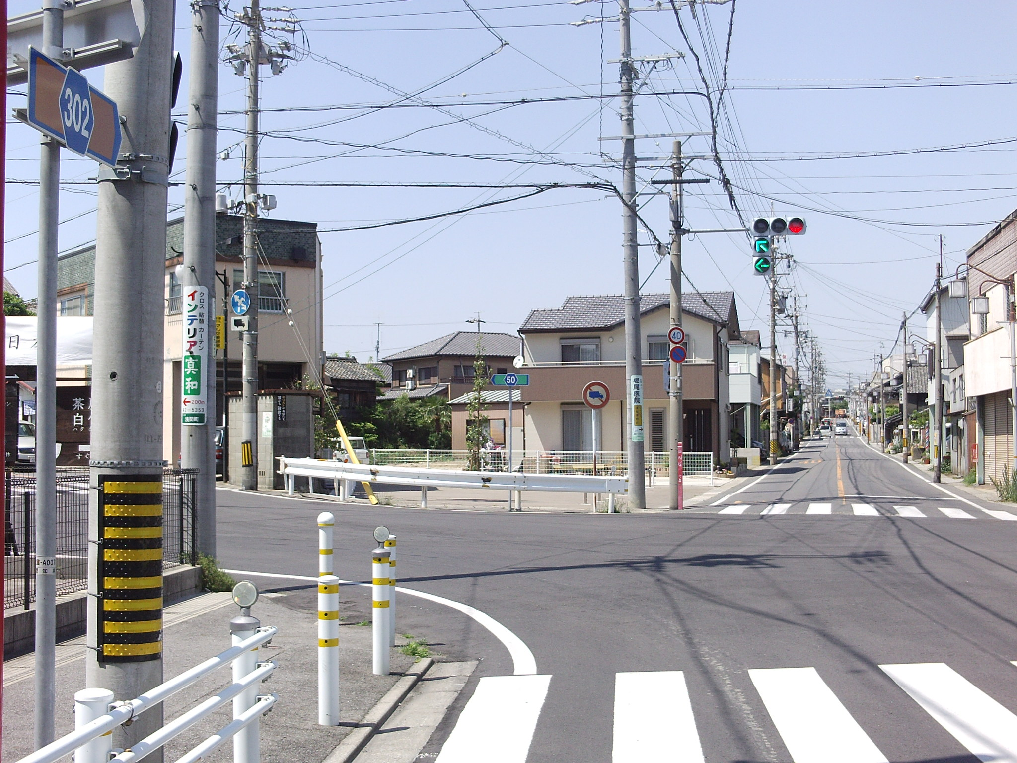 Aichi prefectural road No.302 in Shinkawamachi 5-chome, Hekinan, Aichi.